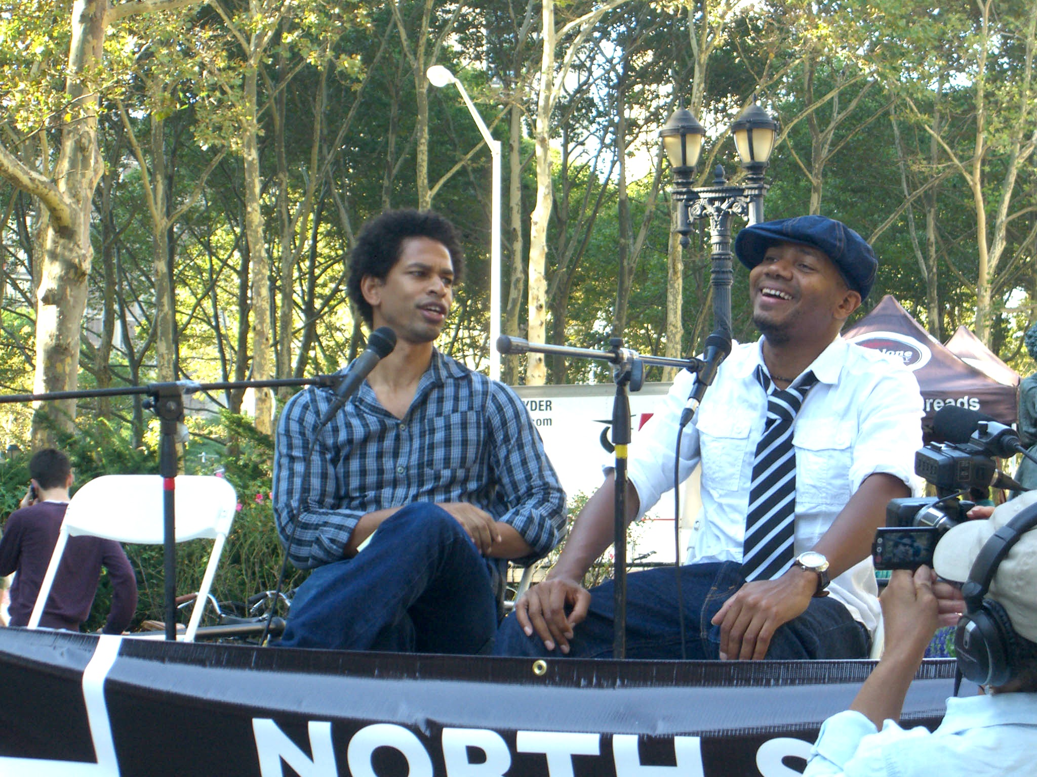 Writer/journalist Touré (left), and hip hop musician DJ Spooky, speaking at the 2009 Brooklyn Book Festival.